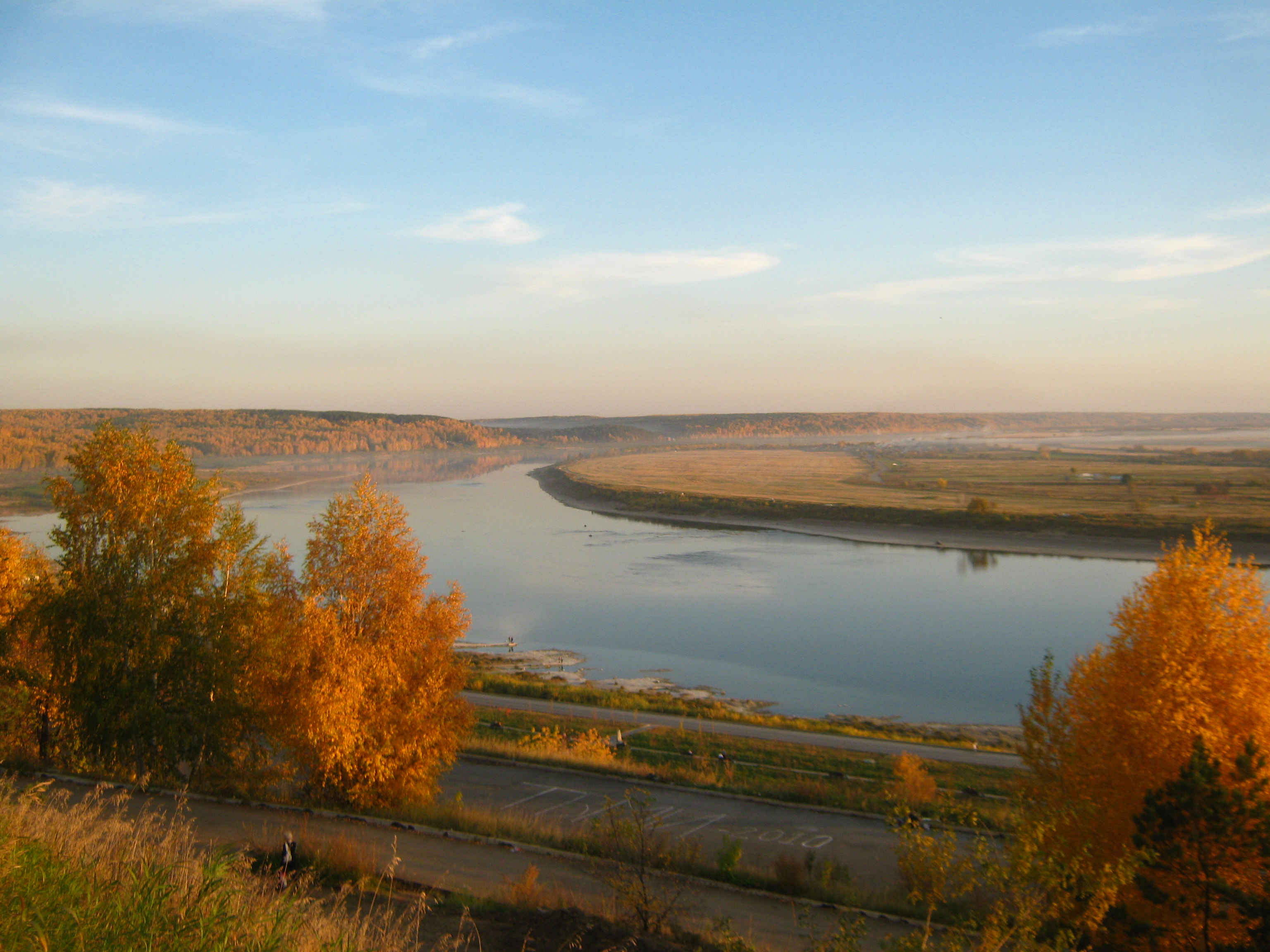 Tom river viewed from Lagerny garden, Tomsk